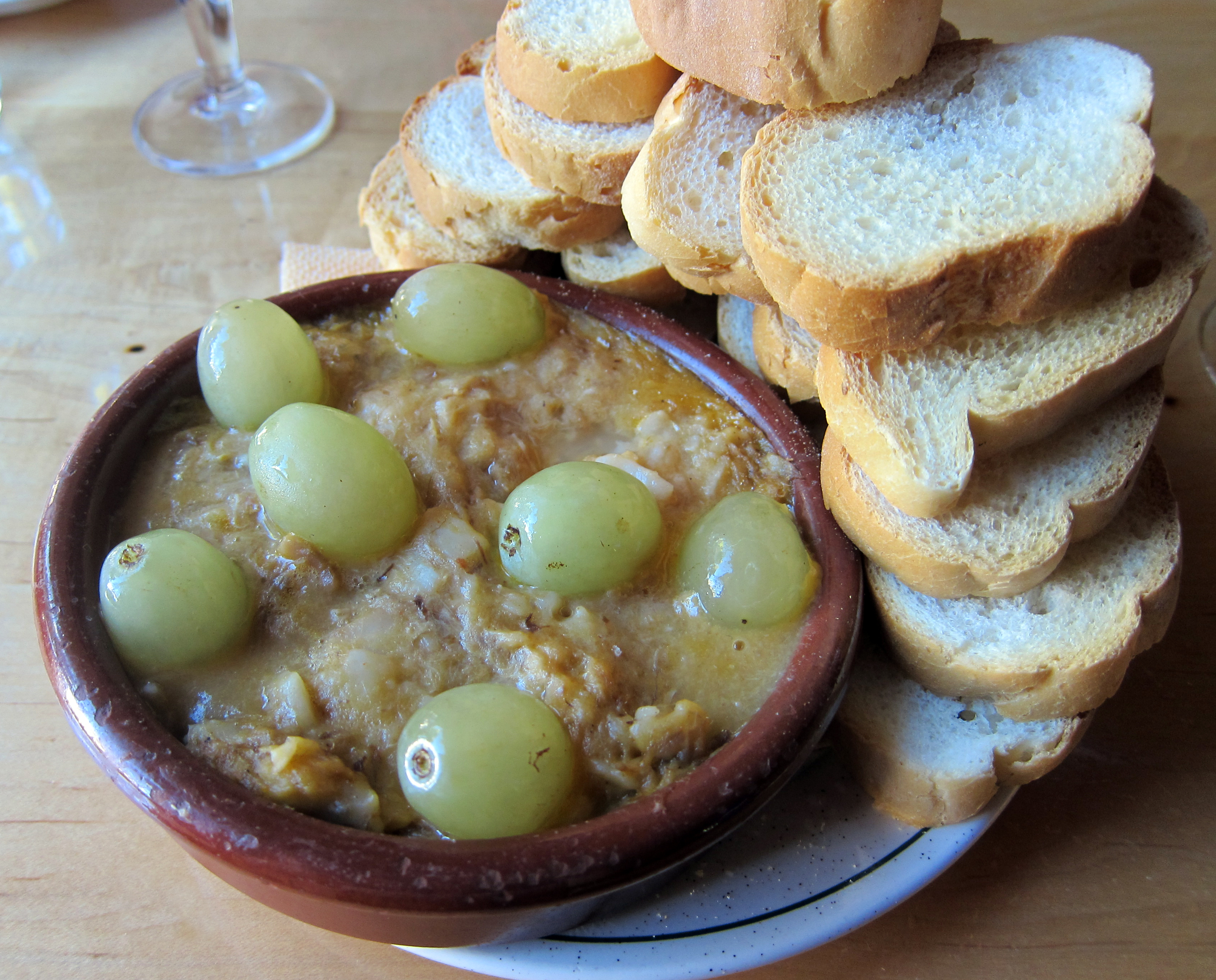 Gazpacho Pastor. Typical dish of the cuisine of the province of Cuenca (Castile-La Mancha).